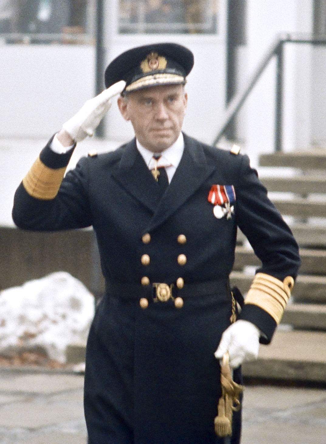 Admiral Sven Eigil Thiede when taking over the role as Chief of Defence from General Otto K. LindDansk: Admiral Sven Eigil Thiede tager over som Forsvarschef for general Otto K. Lind.